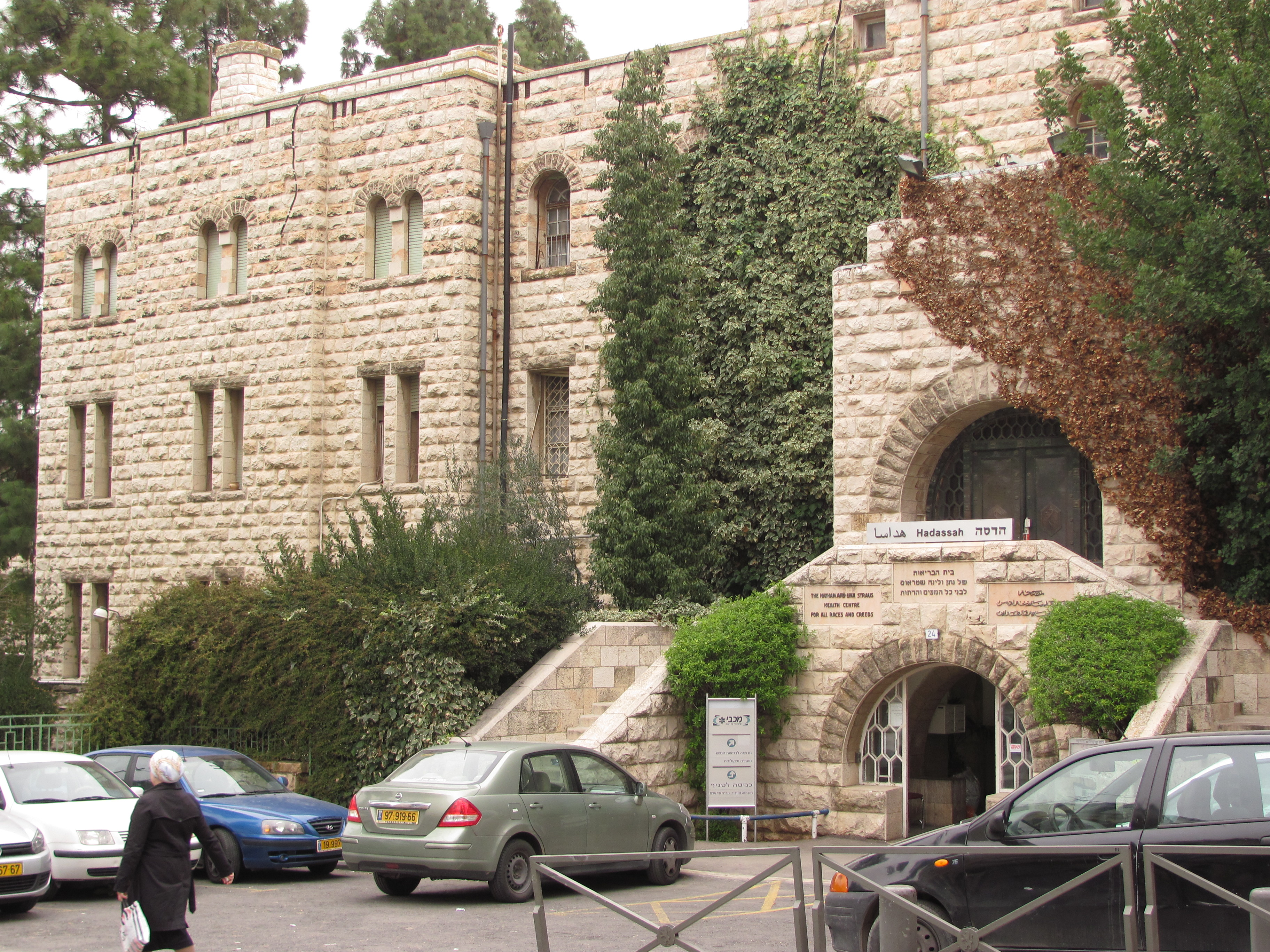 Partial view of the Nathan and Lina Straus Health Centre on Straus Street, Jerusalem